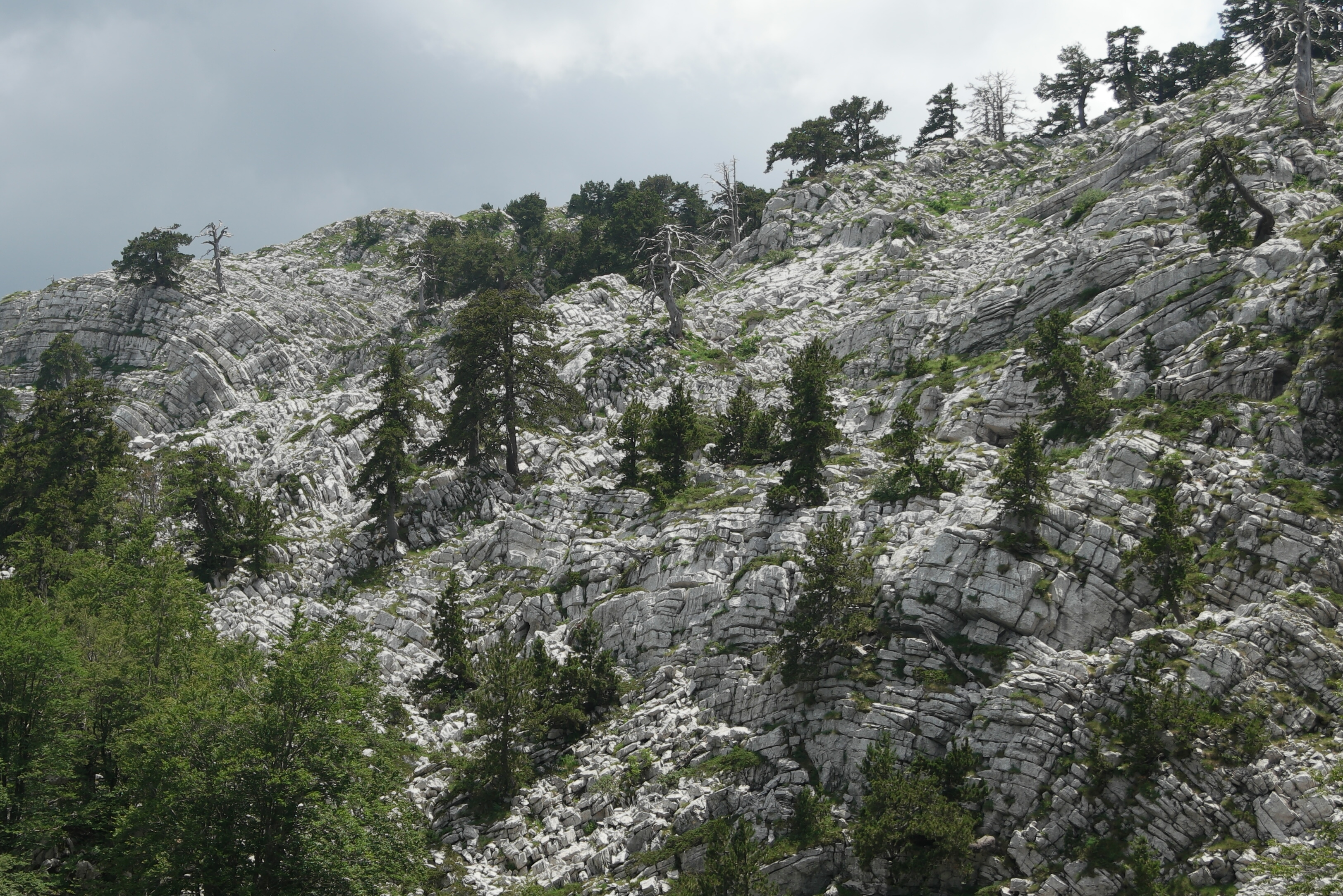 Upper cretaceous bedded limestones of the High Karst nappe, Mt Orjen Schichttreppe at Bijela gora